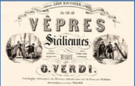 Les vêpres siciliennes by Giusepe Verdi, 1855 score image